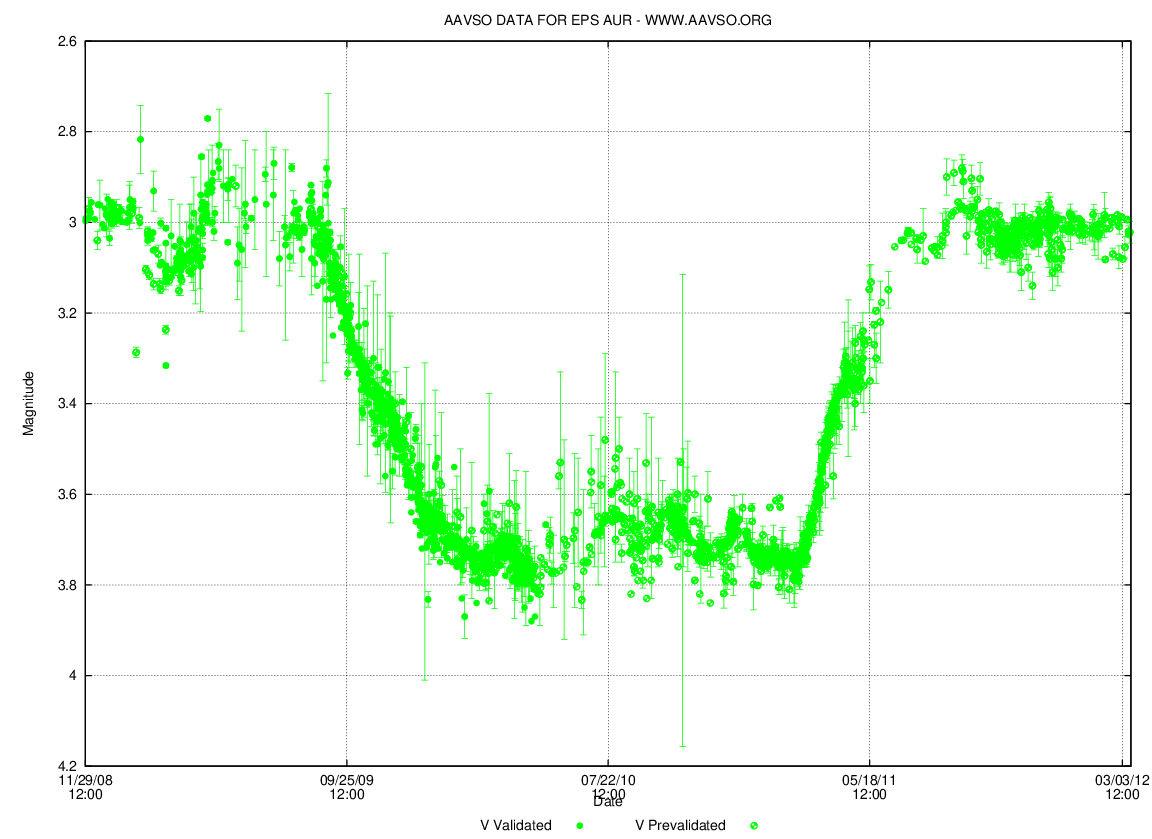 Photoelectric V-band light curve showing the brightness of the eclipsing variable star Epsilon Aurigae from 2009 to 2011. This clearly shows the drop in brightness during the eclipse, the small increase in brightness at mid-eclipse, and the small brightness variations that occur all the time.